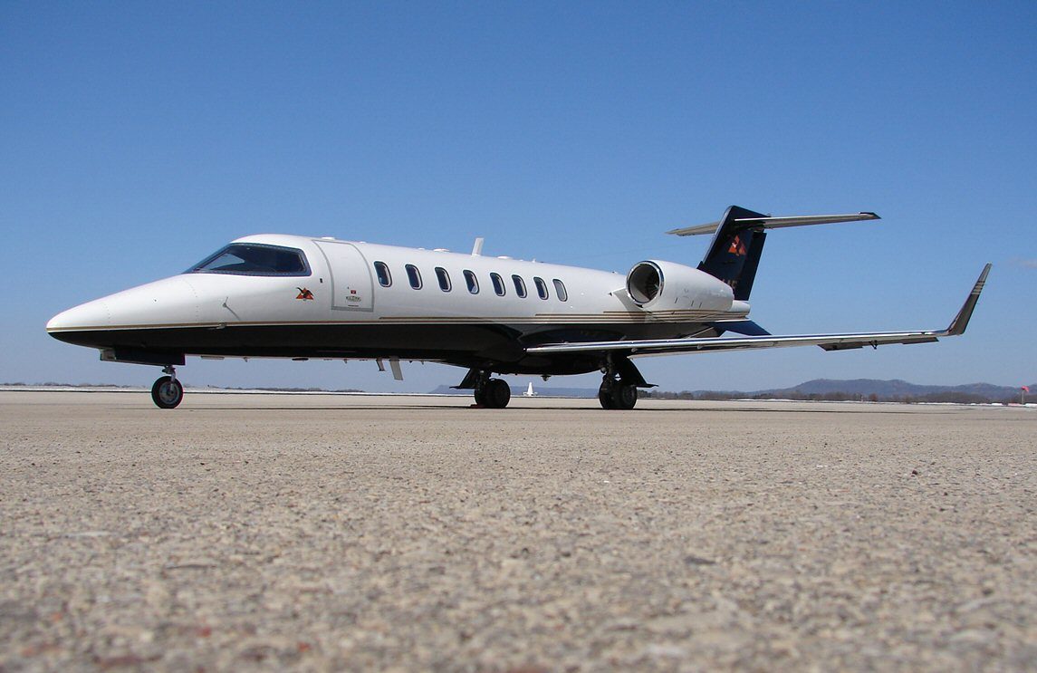 I dont think you could beat a shot like this of a lear, unless its in the AIR! But thats just me!